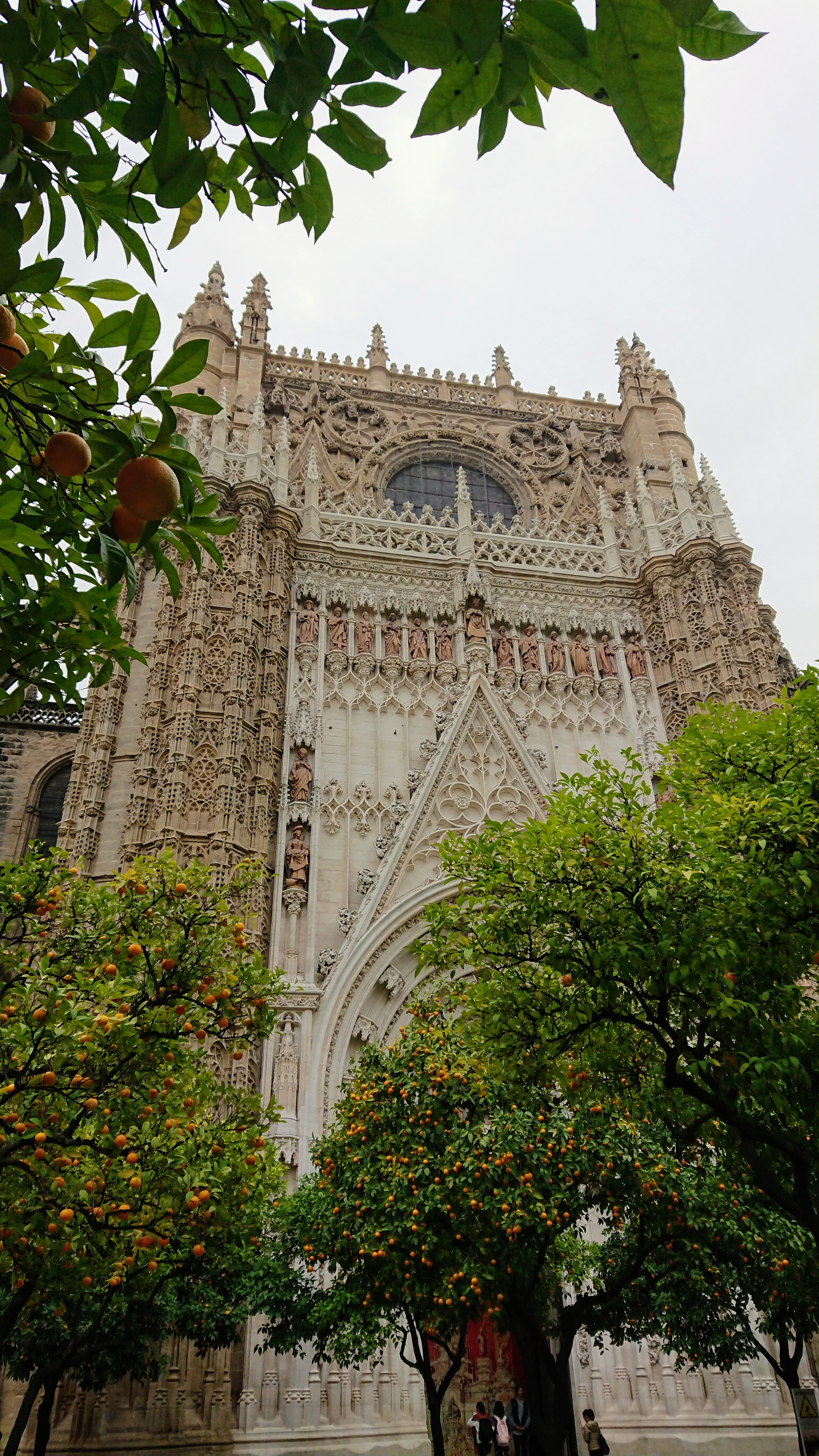 Door of the Conception, Seville Cathedral (Spain)